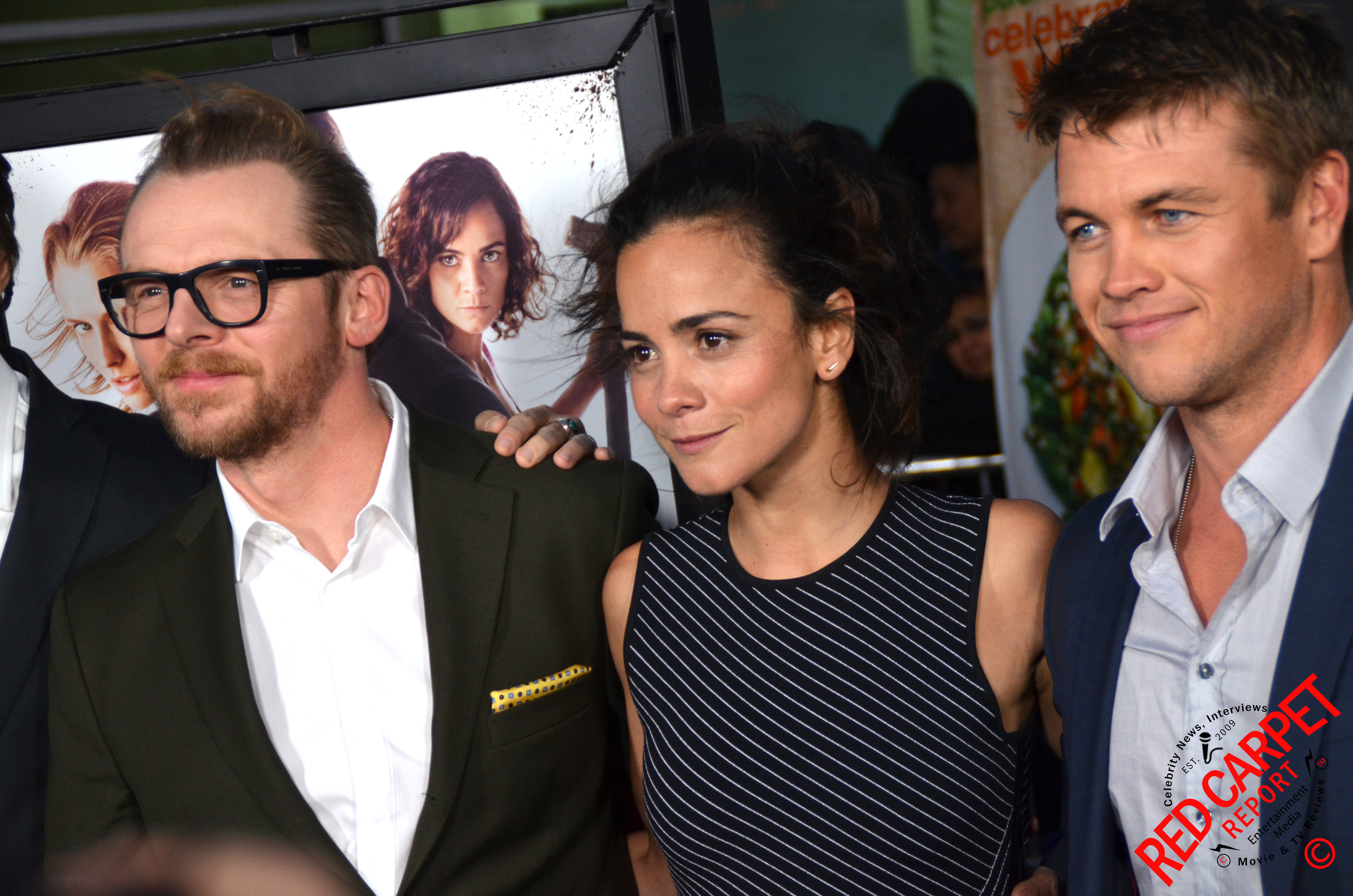 Actors Simon Pegg, Alice Braga and Luke Hemsworth at the Los Angeles Premiere of "Kill Me Three Times" on March 24, 2015